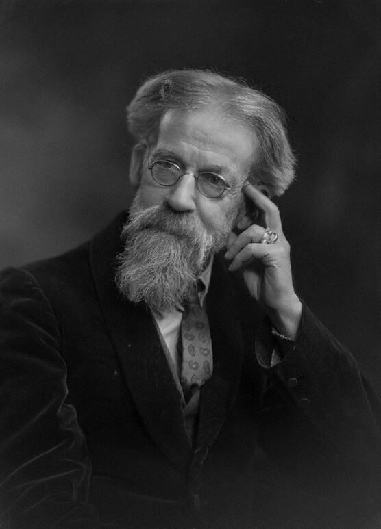 by Lafayette (Lafayette Ltd), half-plate nitrate negative, 30 December 1931